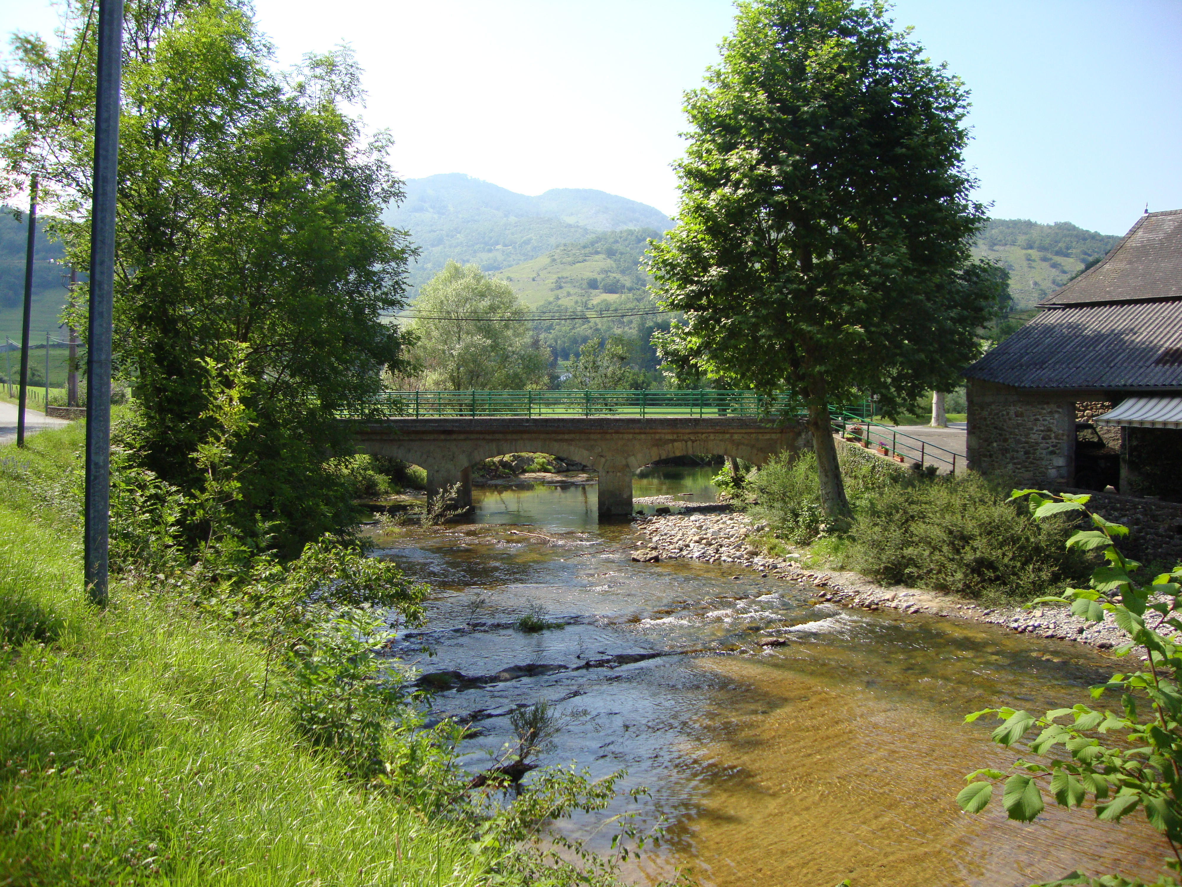 Arhan (Lacarry e.a., Pyr-Atl, Fr)bridge over the Apoura